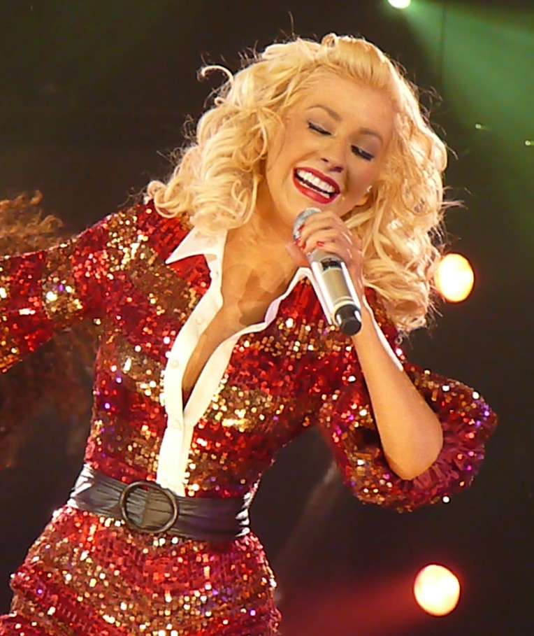 Christina Aguilera singing "What A Girl Wants" during the "Back to Basics World Tour"